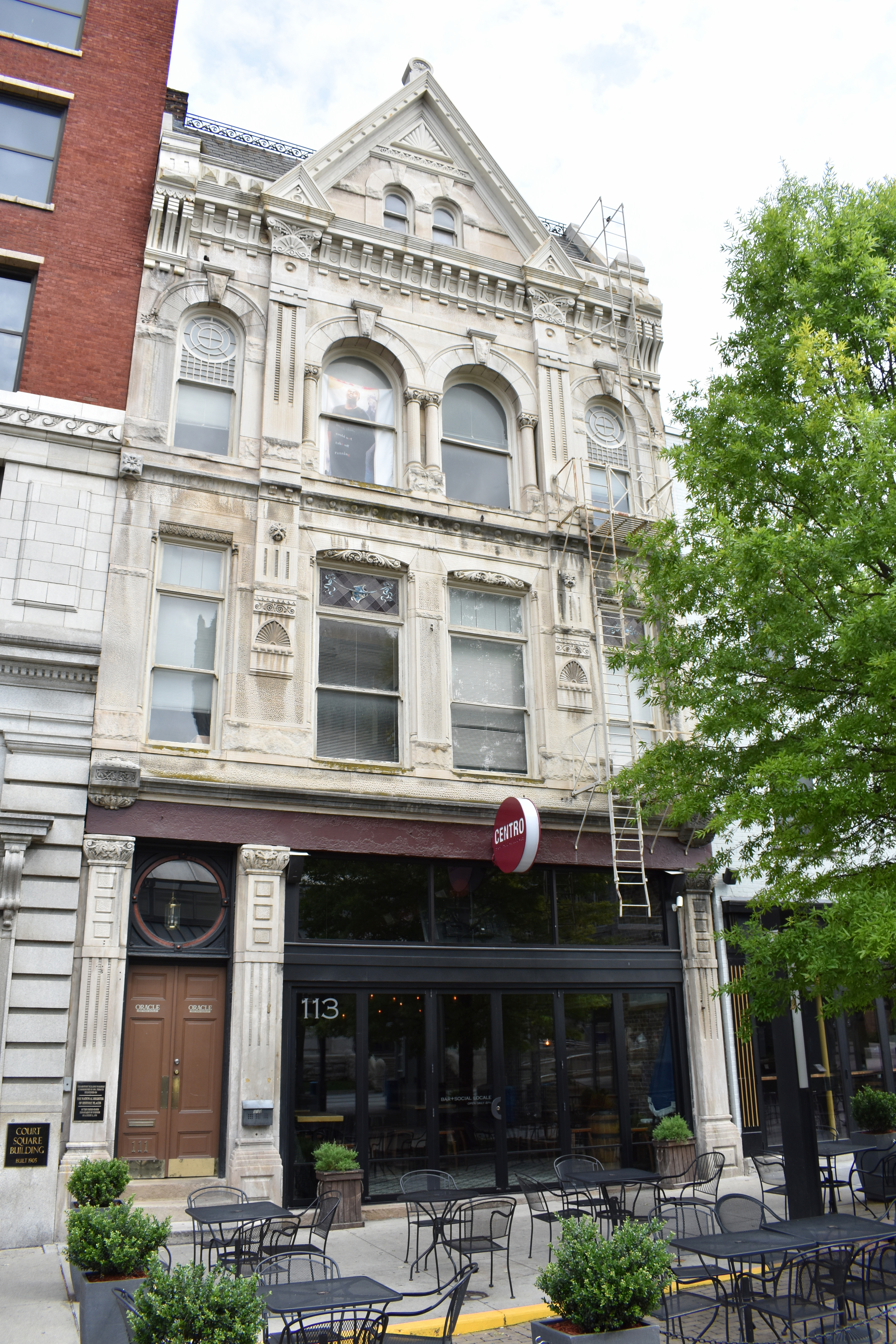 The Fayette Safety Vault and Trust Company Building (1890) in Lexington, Kentucky, is listed on the National Register of Historic Places.